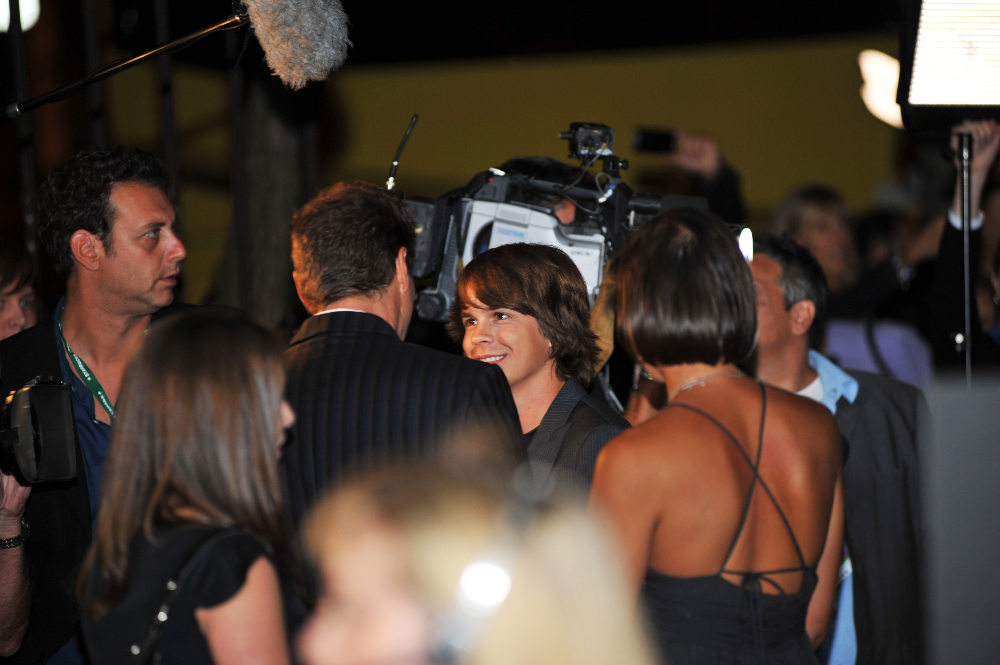 Johnny Simmons @ Jennifer's Body screening